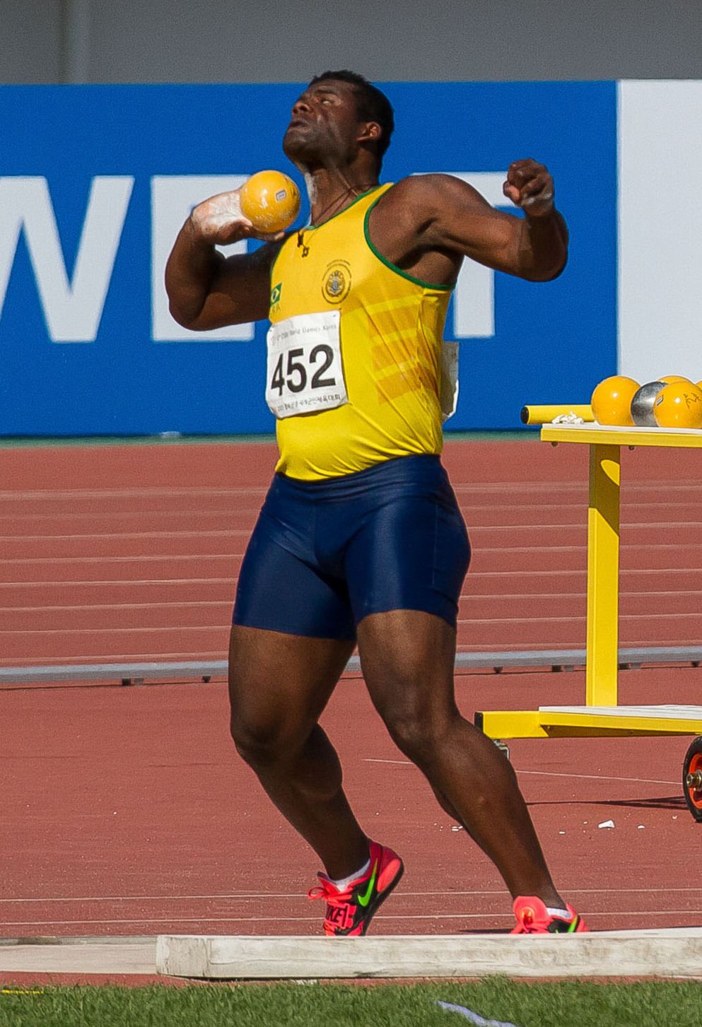 Ronald Julião at the 2015 Military World Games. Foto: Sgt Johnson Barros